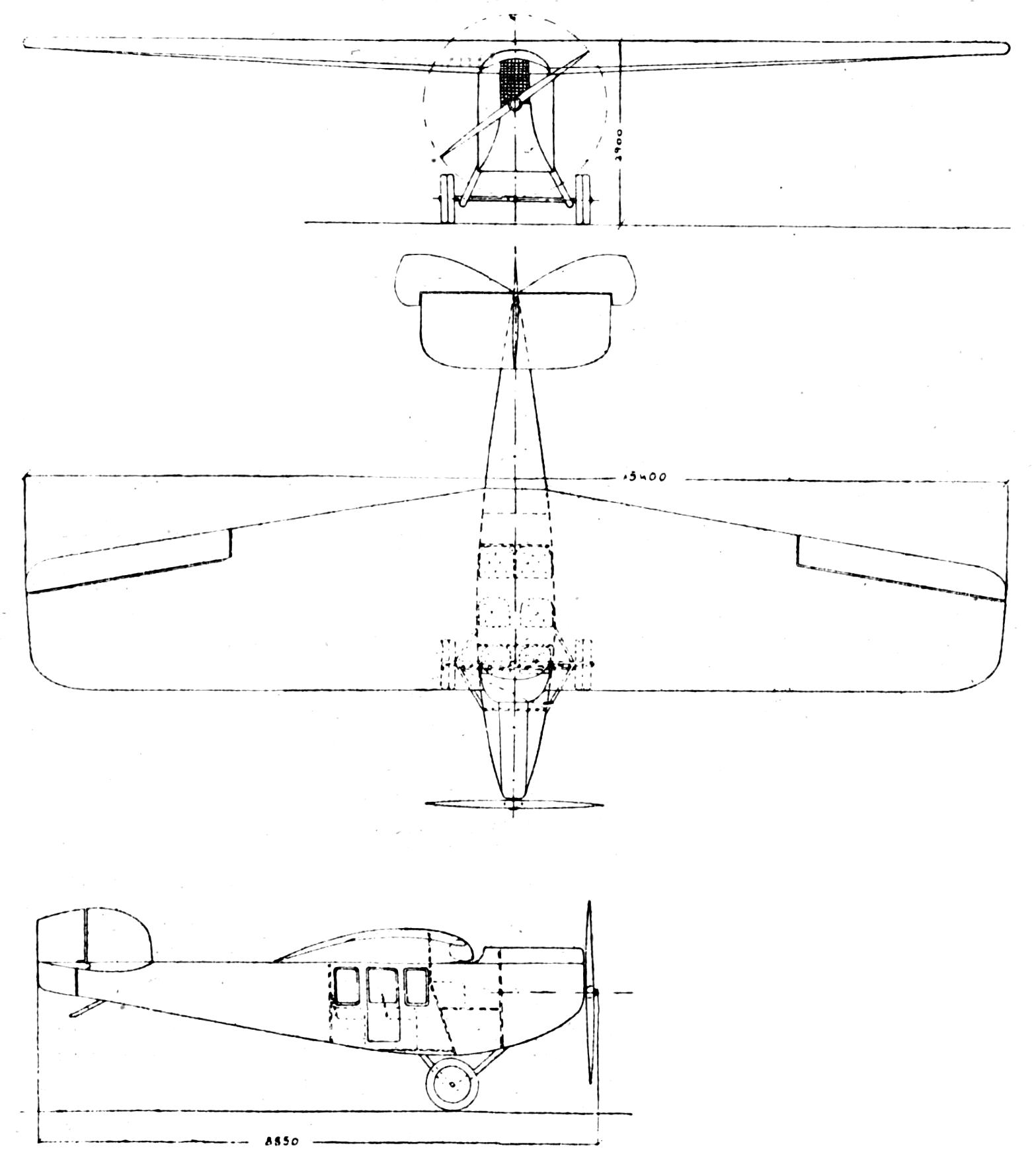 LFG V 27 3-view drawing from L'Aéronautique December,1922